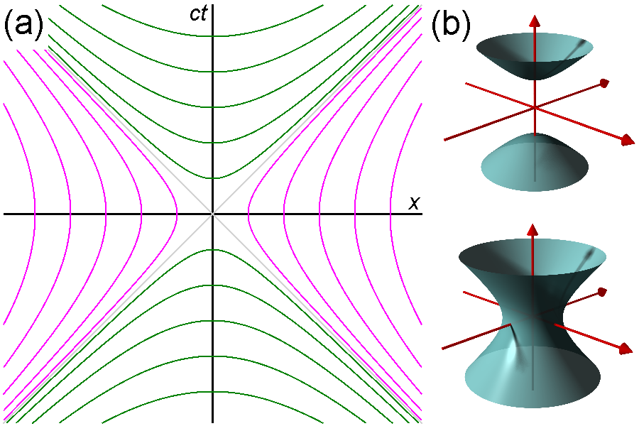 In the spacetime diagram on the left, the magenta hyperbolae connect events of equal spacelike separation from the origin, while the green hyperbolae connect events of equal timelike separation from the origin. When viewed with an extra dimension of space, these respectively generate hyperboloids of one sheet and two sheets. Note a confusing point of nomenclature: The magenta hyperbolae, which cross the x axis and represent loci of points separated by constant spacelike distances from the origin, are termed "timelike" (not spacelike) hyperbolae because all intervals along the hyperbola are timelike intervals. Likewise the green hyperbolae, which cross the ct axis, are termed "spacelike" hyperbolae because all intervals along the hyperbolae are spacelike intervals.